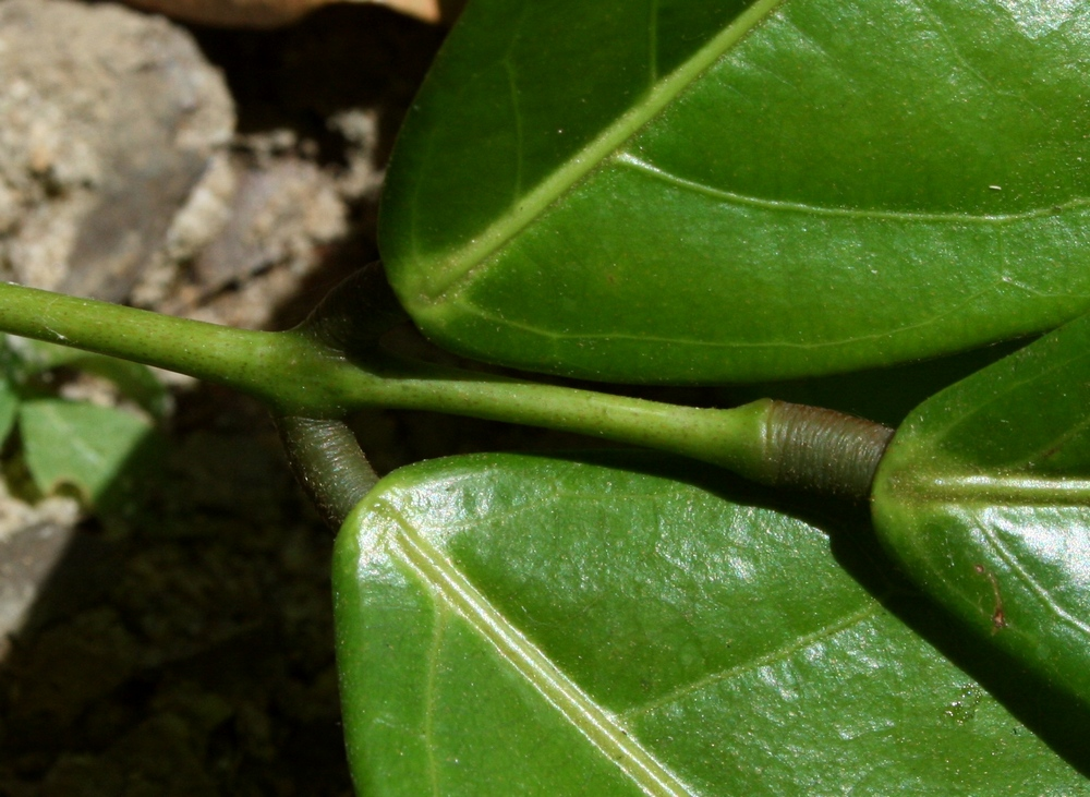 Detail of pulvini on the petiolules of compound leaf of Connarus sp.